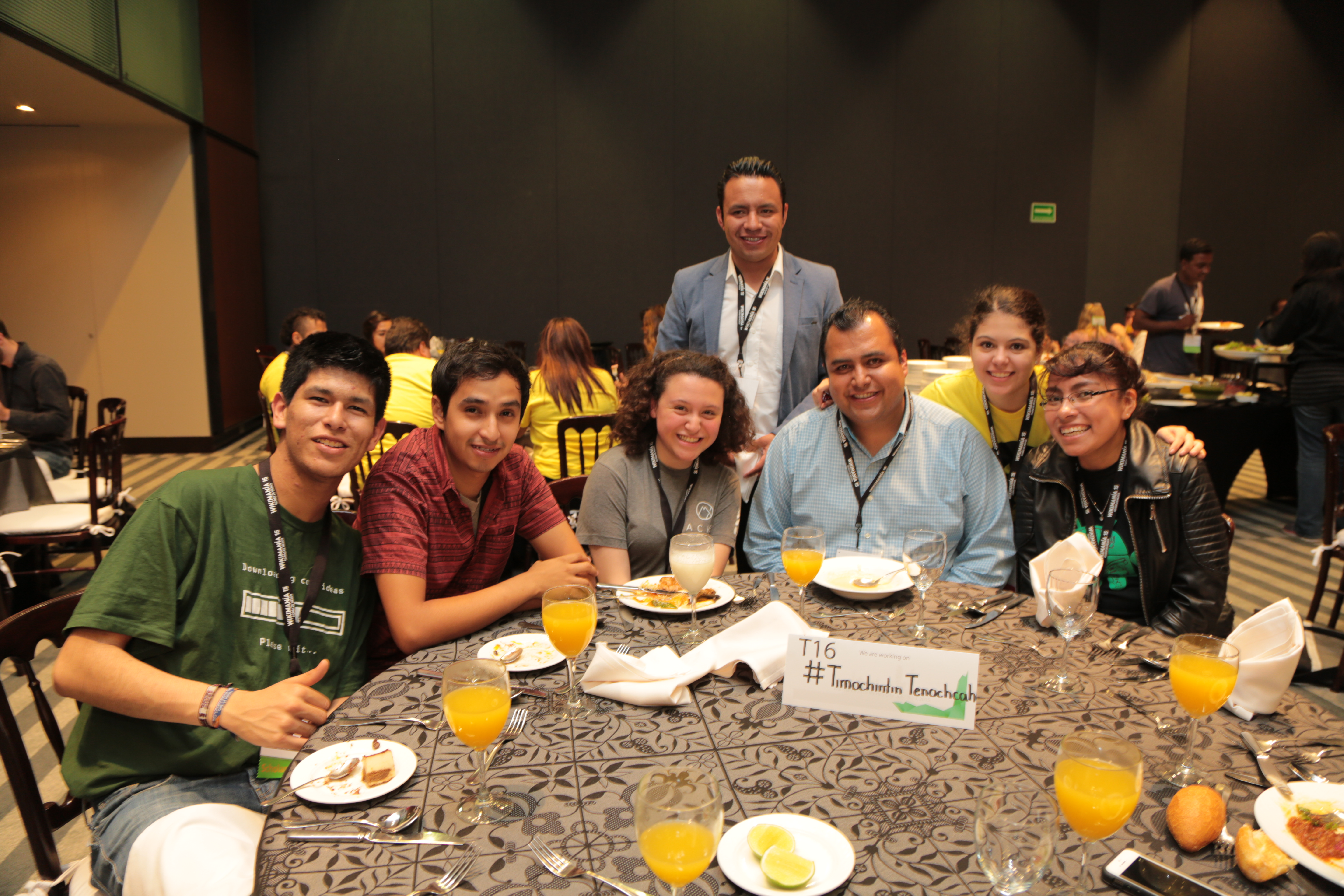 TimochintinTenochcah